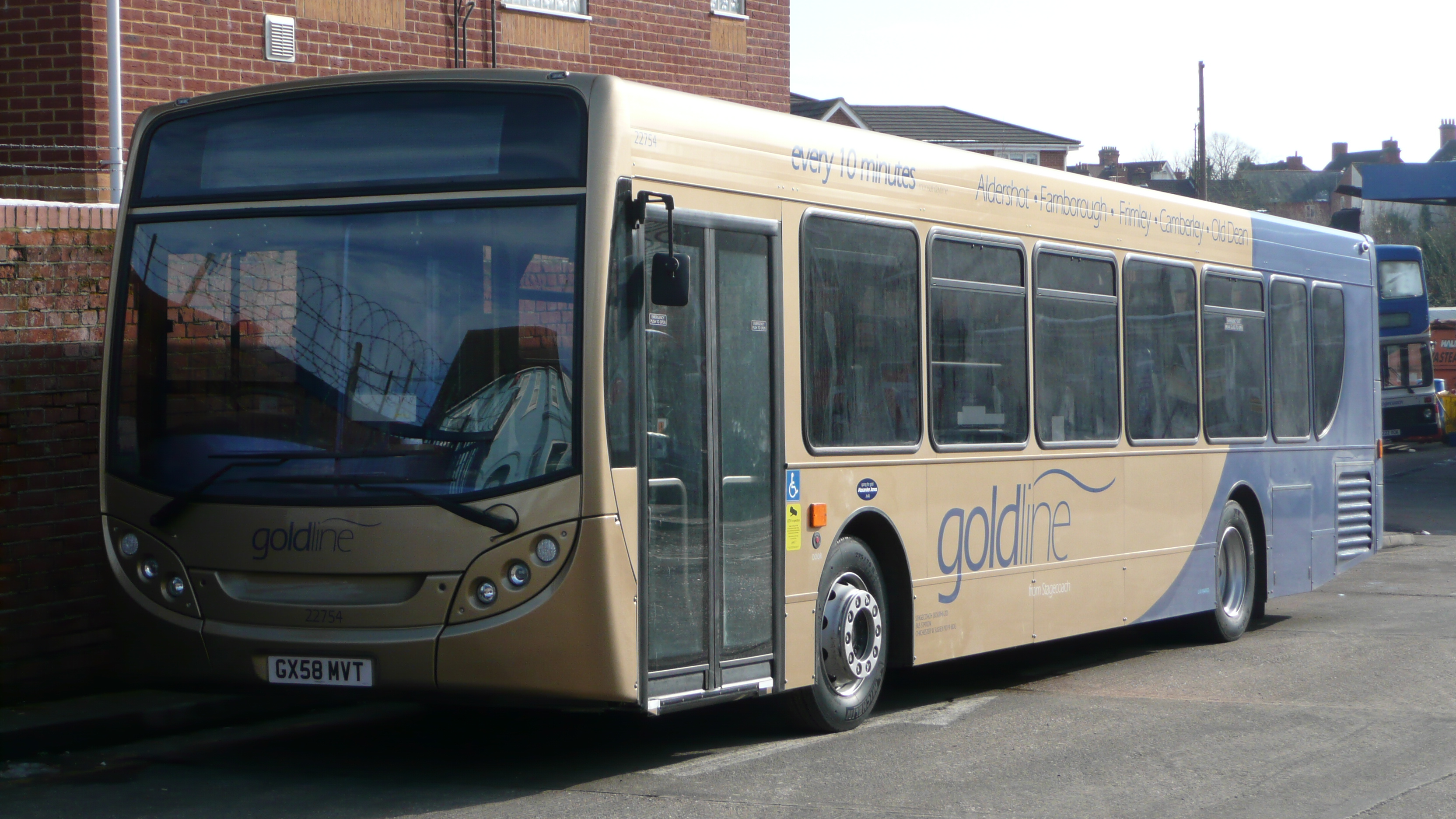 Stagecoach in Hants & Surrey's 22754 (GX58 MVT), a MAN 18.240/Alexander Dennis Enviro300 parked in the company's Aldershot depot, while others of the same type were on their first day of service on Stagecoach Goldline route 1.